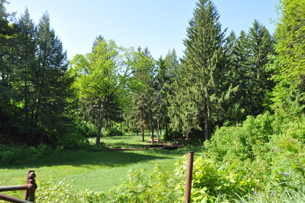 A bucolic view of the stream passing through the Valley Cemetery of Manchester, New Hampshire.